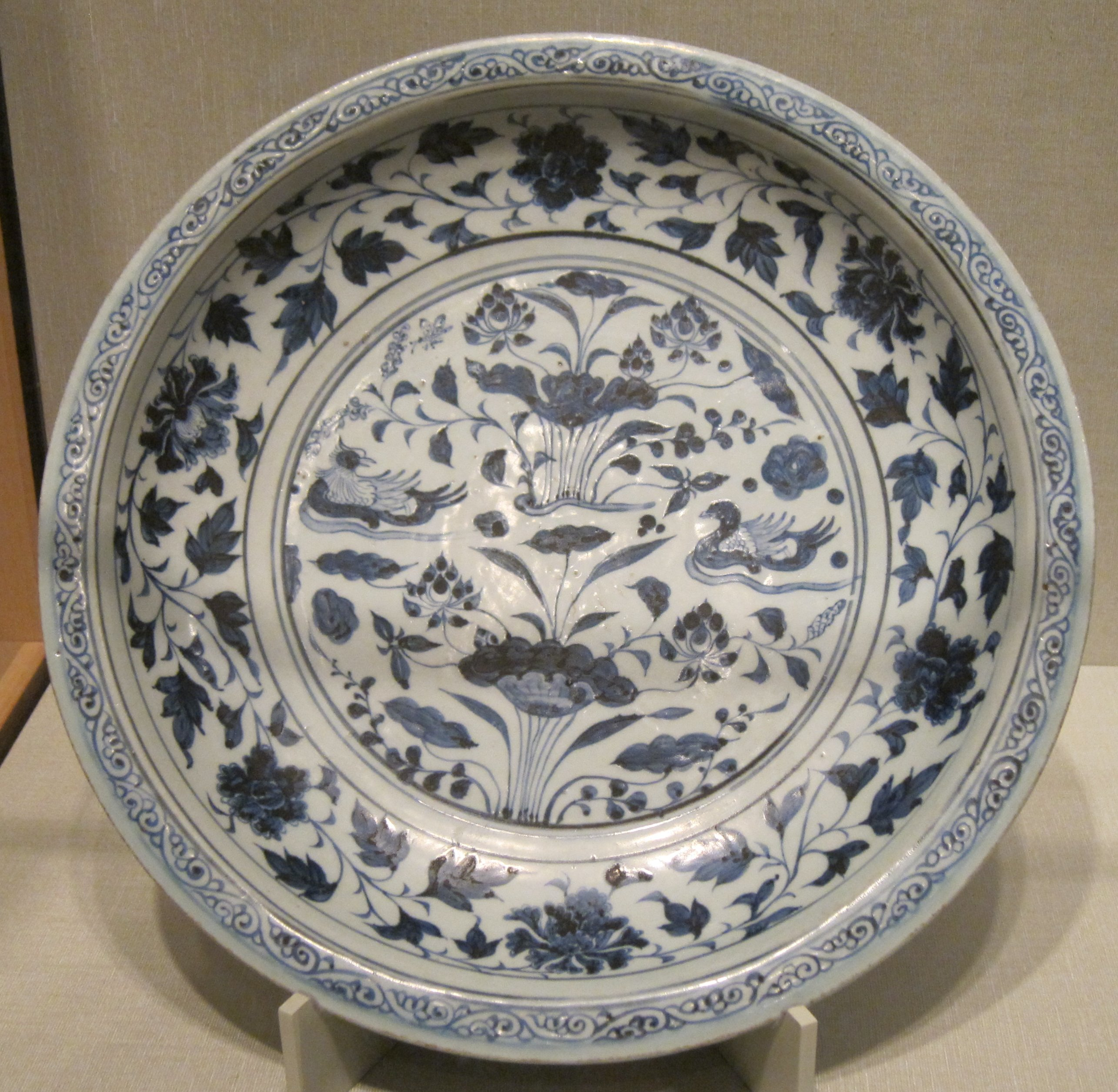 Chinese dish, Yuan dynasty, 14th century, porcelain with glaze, Honolulu Academy of Arts